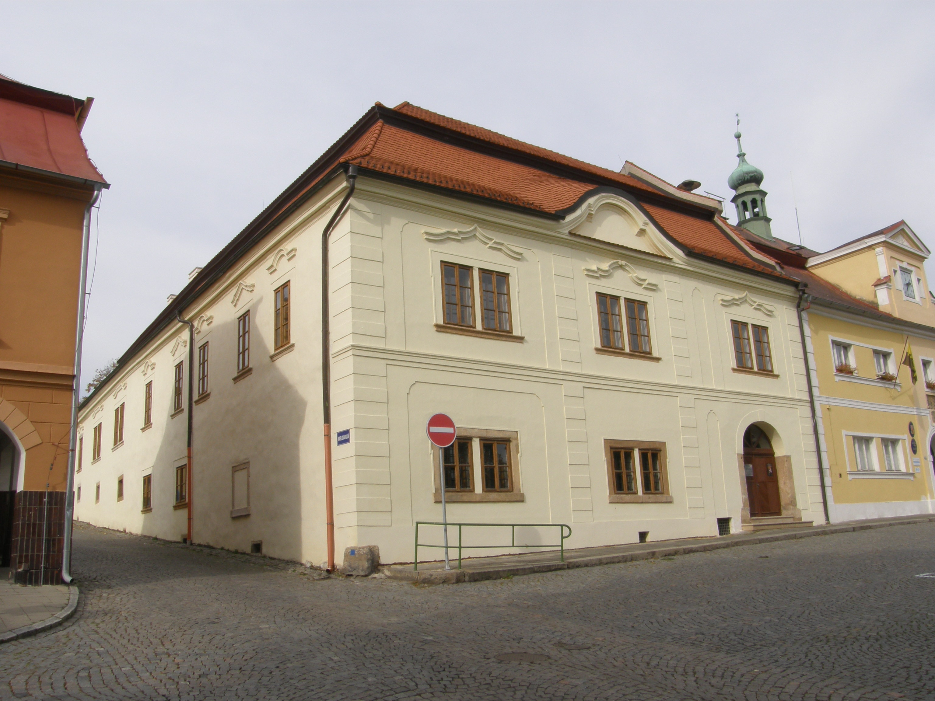 cultural monument